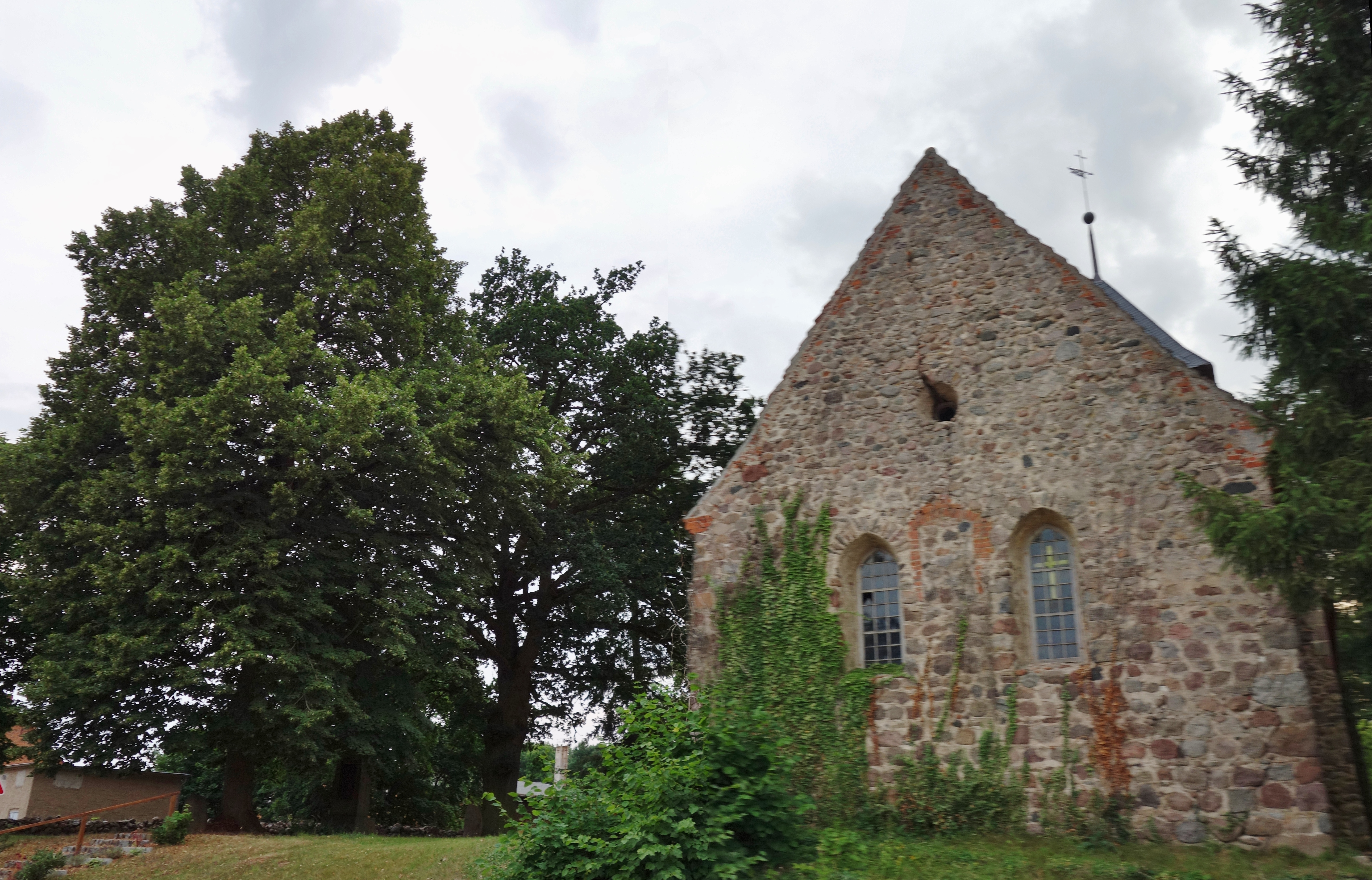 Church in Kehrberg with Queen Louise lime tree and peace oak behind , Groß Pankow municipality, Prignitz district, Brandenburg state, Germany